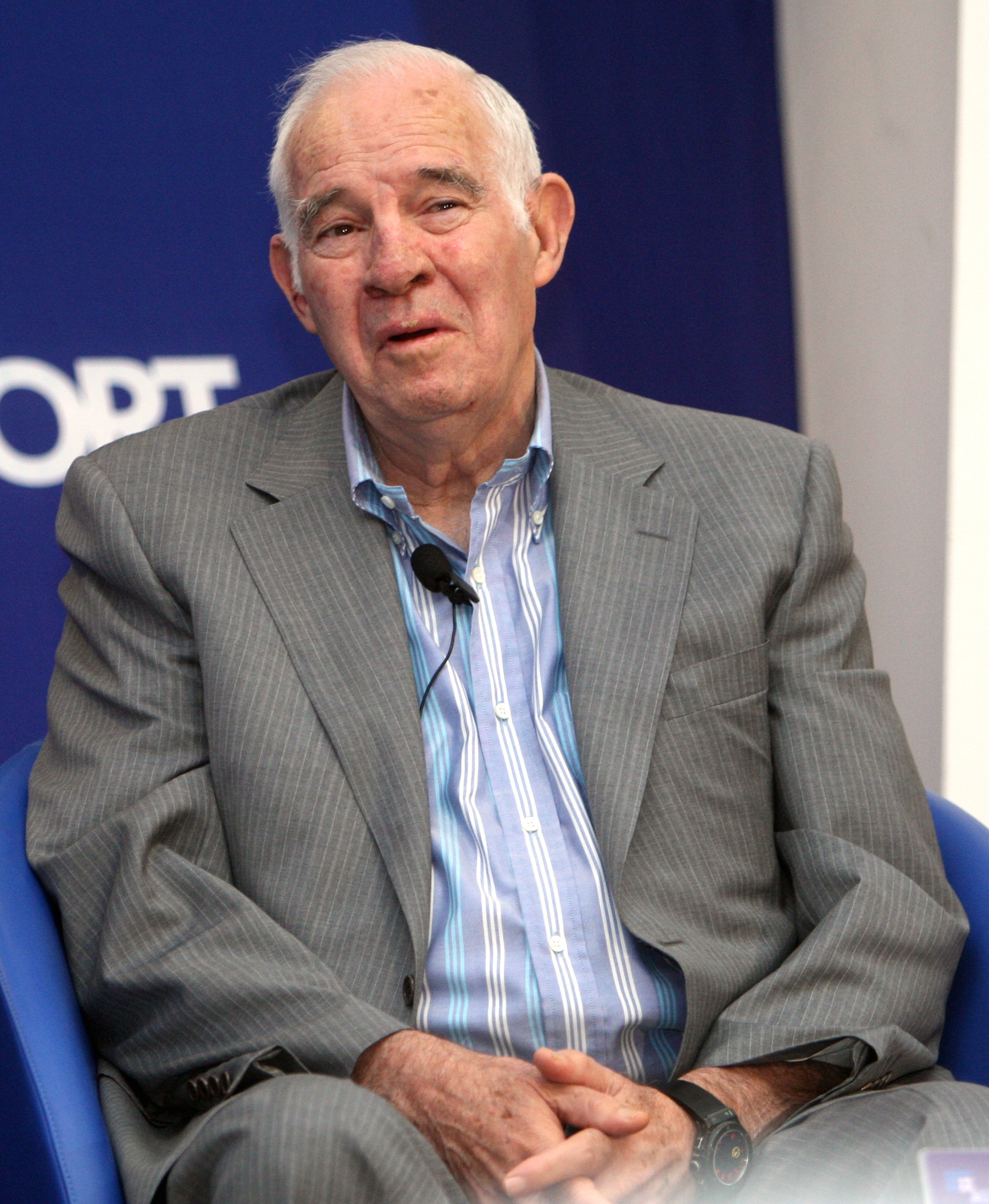 Former coach Luis Aragonés attends a session at the Aspire4Sport Congress and Exhibition at the ASPIRE Academy.